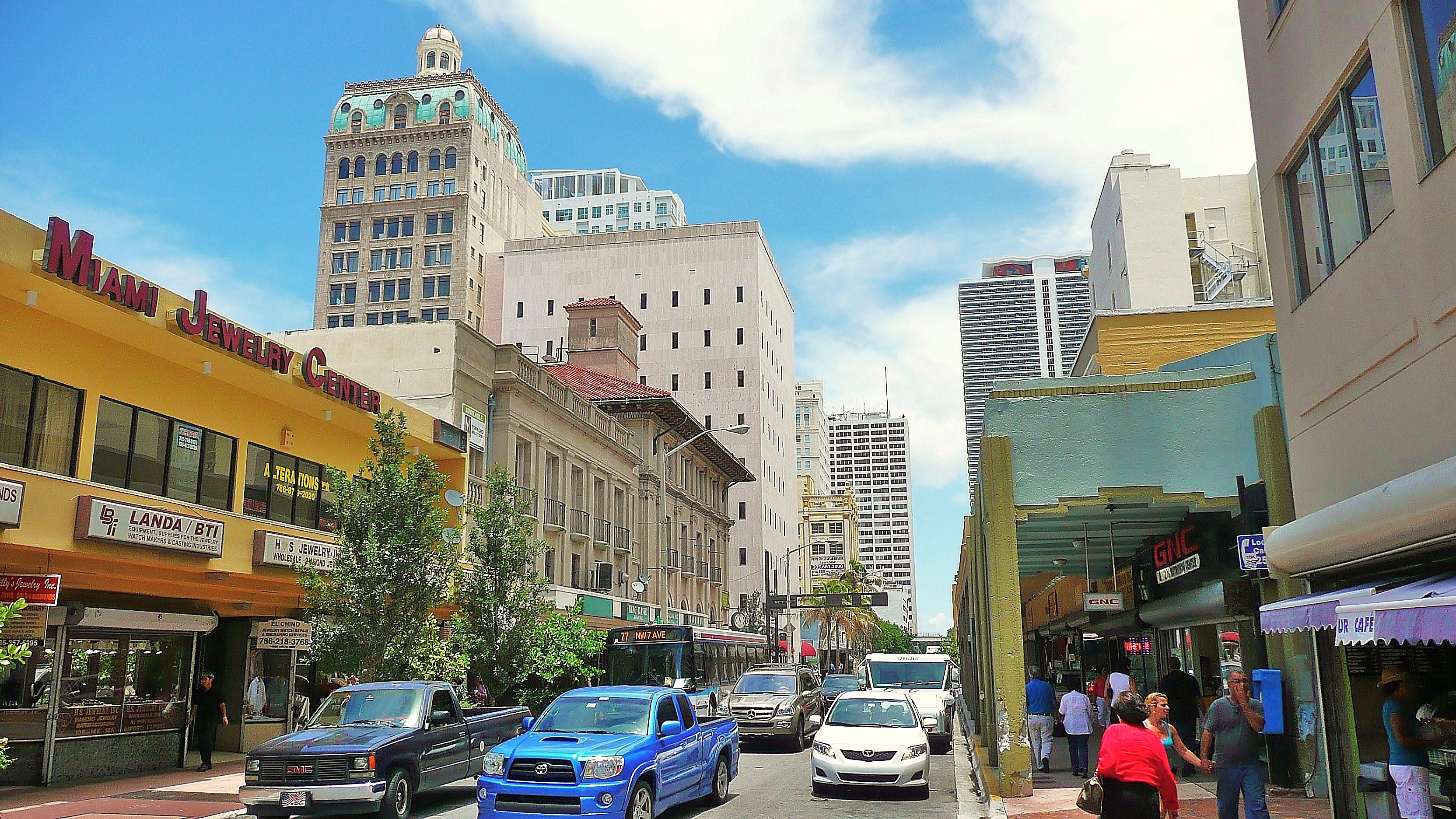 Digital photo taken by Marc Averette. The Miami Jewelry District in Downtown Miami, Florida, United States.